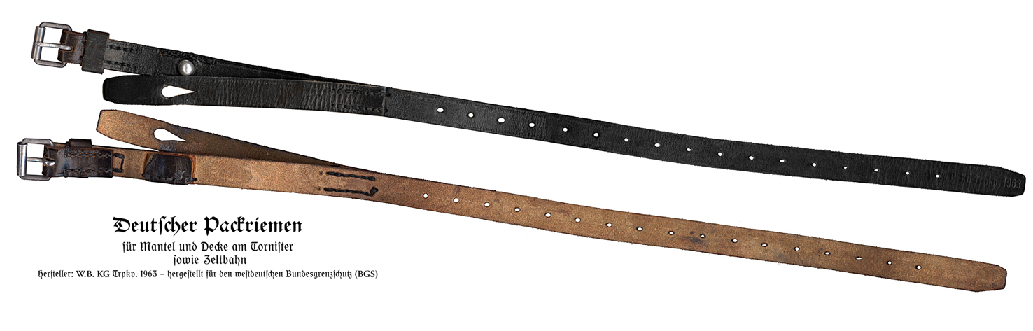 German stack straps of the Federal Police of Germany.